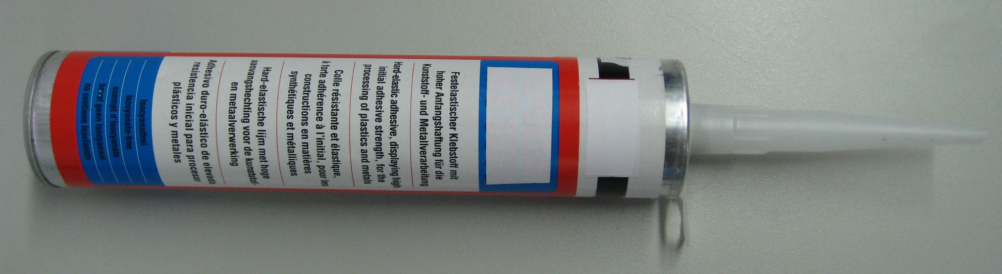 Adhesive sealant based on MS polymer, in aluminium cartridge packaging. Capacity: 310 ml. A plastic cannula is screwed. Application is made with an hand or air pressure pistol (high viscosity adhesive).